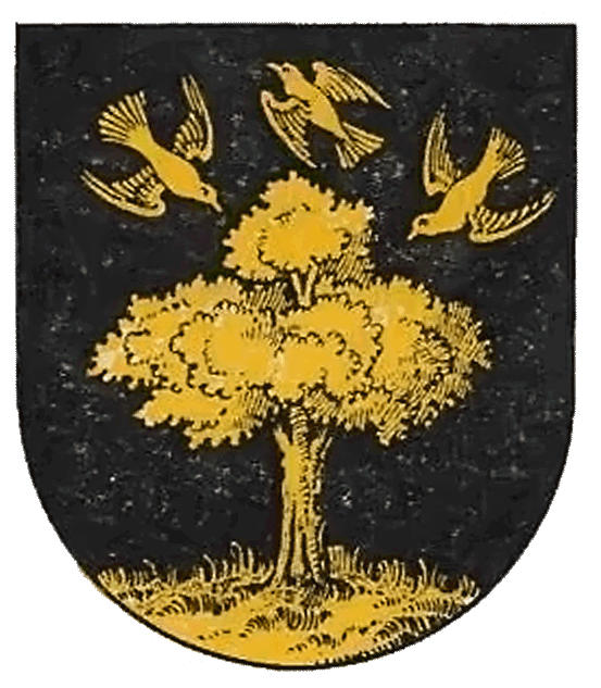 Coat of arms of Neulerchenfeld, Vienna